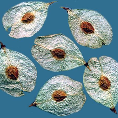 Ulmus x holandica 'Vegeta' fruits